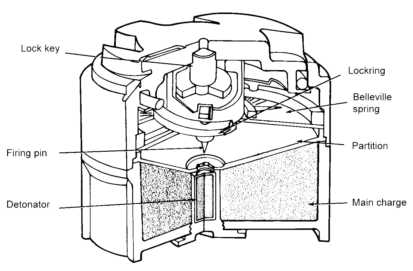 Right half of File:M14_mine_cutaway.jpg, showing a cutaway diagram of a US M14 AP mine.